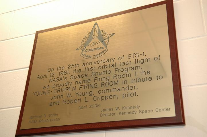 The firing room 1 in the Launch Control Center at Kennedy Space Center is renamed to the Young-Crippen Firing Room in tribute to the 25th anniversary of the first space shuttle flight on April 12, 1981, dedicating the firing room that launched the historic flight and the crew of STS-1. Source